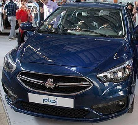 Saipa Roham (Kermanshah Car Show)